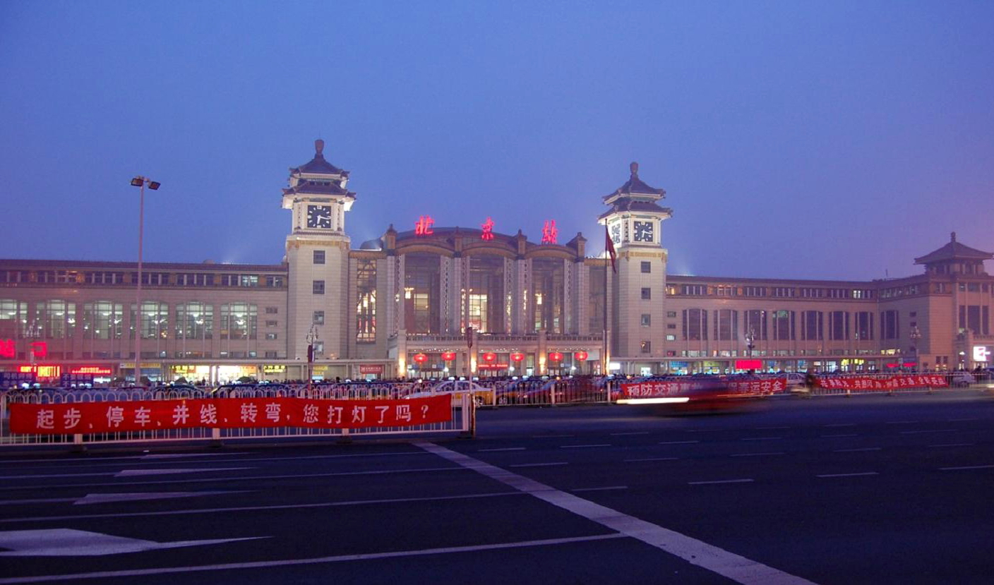 Beijing Railway Station at night.